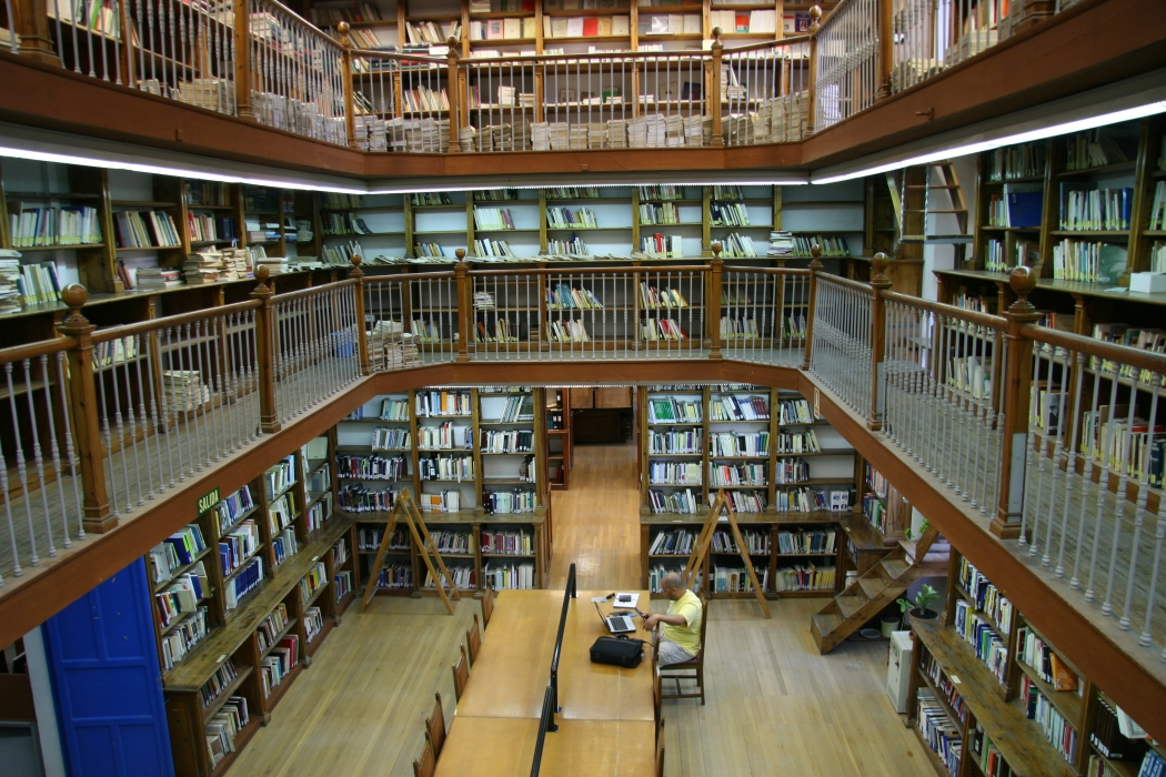 Library of the Comunication and Documentation Faculty in Granada, Spain.